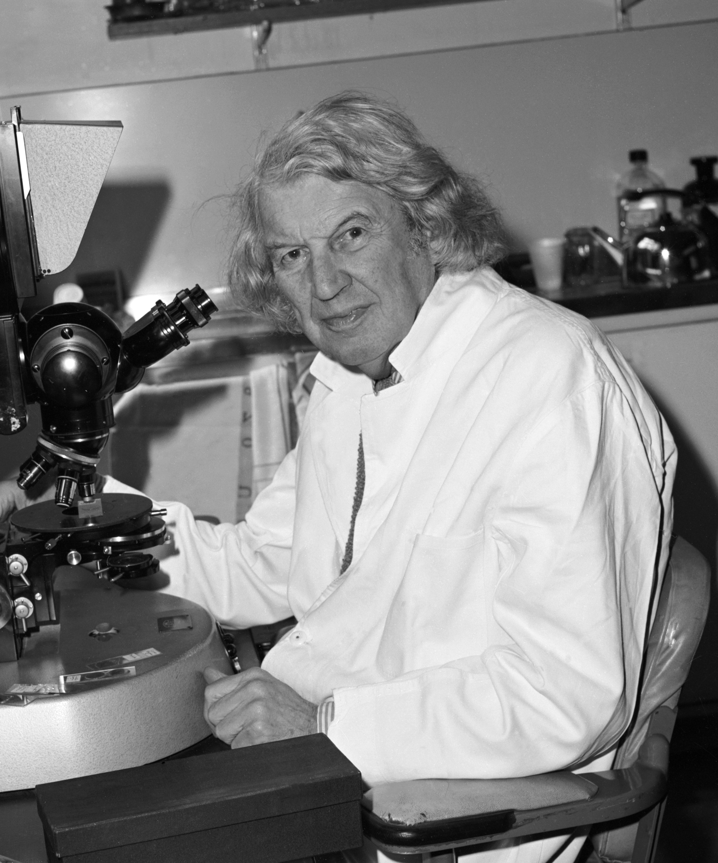 John Zachary Young in his room at the Wellcome Institute